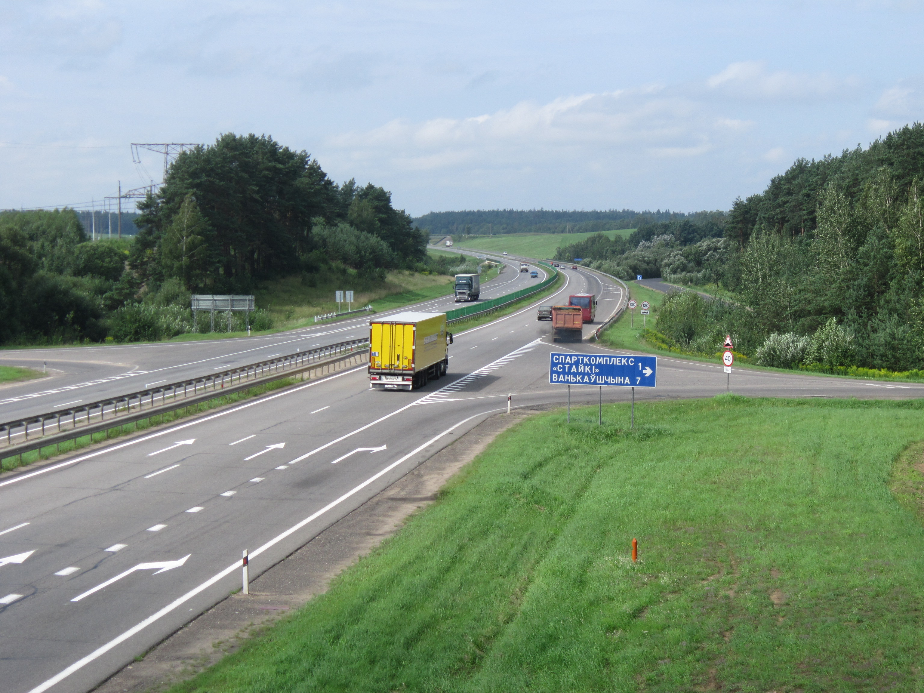 M1 highway (Belarus) near Minsk